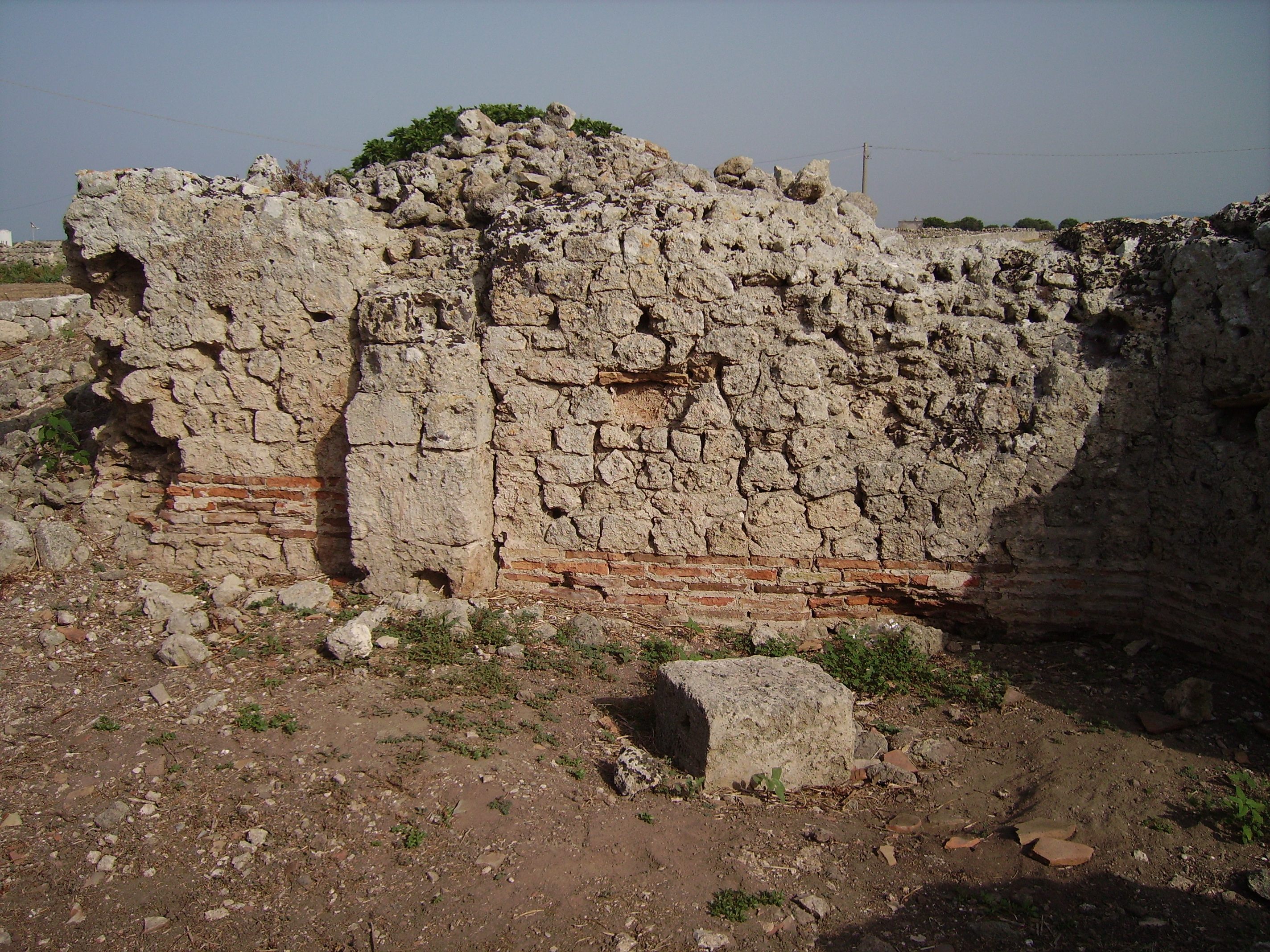 Opus-vittatum-mixtum in Egnazia's building. The usage of this reproduction of a "cultural good" may be restricted by Italian laws, which requires a payment to the local Soprintendenza (government department responsible for the environment, historical buildings, monuments and other treasures) for any use of reproductions of these goods (article 107) that are not for a personal or educational purpose (article 108). Wikimedia Commons is not required to comply as it is hosted in the United States of America. Users who are citizens of Italy are warned that they are solely responsible for any possible violation of local laws. See our general disclaimer for more information. These restrictions are independent of the copyright status of the depicted work. The following are considered cultural heritage assets (article 10): state owned things with some artistic, historic, archeological or ethno-antropological interest such as artworks displayed in museums or galleries, archeological remains, historical buildings, libraries, archives collections, places of cultural and artistic interest, photographs, and other items declared cultural heritage by the Ministry of Cultural Heritage and Activities unless explicitly removed on a case by case basis. The national catalog of cultural heritage assets is not publicly accessible. Reproductions of Italian works classified as "cultural goods" may only be displayed on the Italian Wikipedia using the appropriate copyright tag under its Exemption Doctrine Policy. This requires that they be locally uploaded, low resolution, and must have a rationale for their use. The full-resolution copies on Commons must not be used.